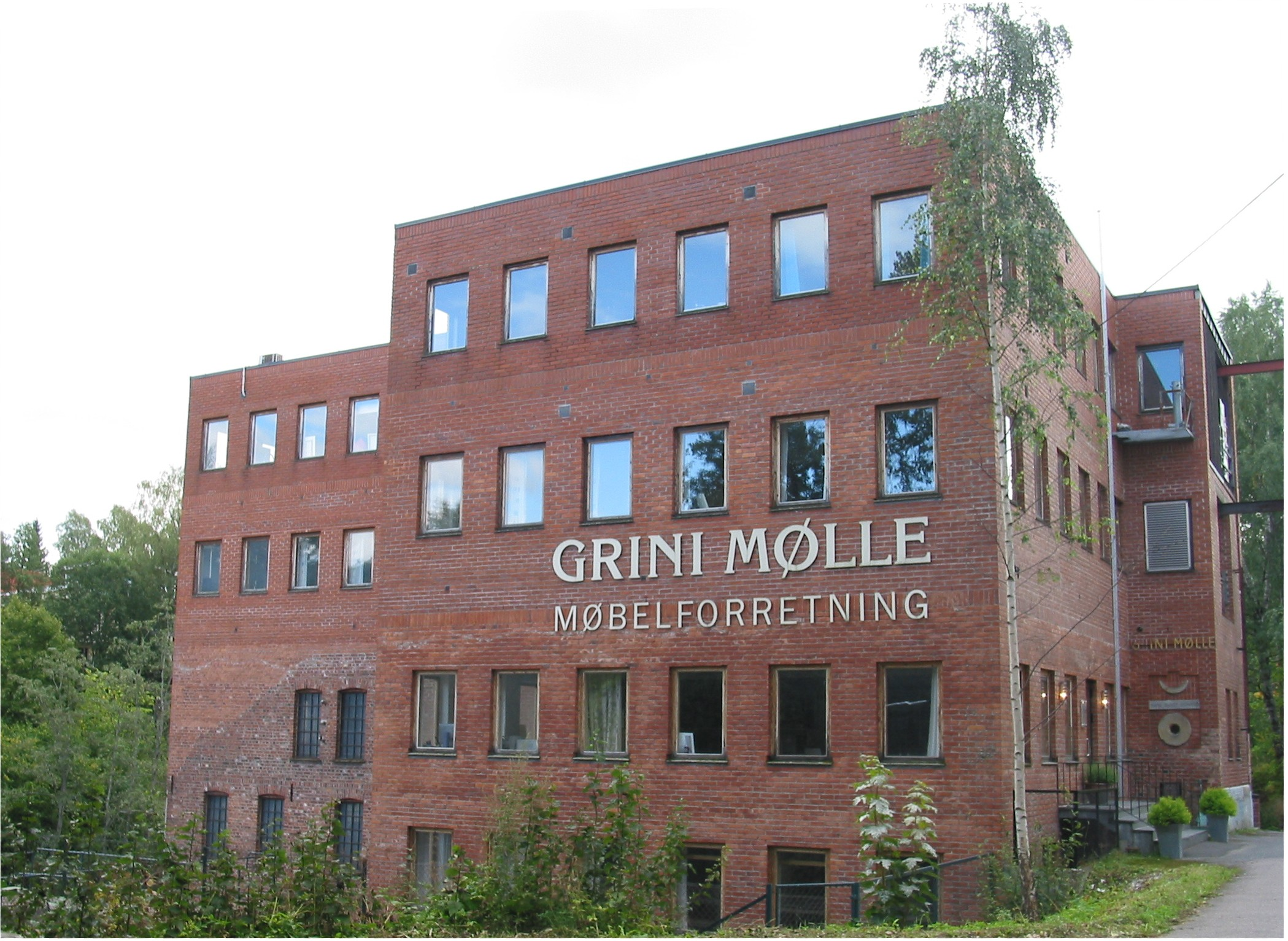 Grini Mill (Grini mølle) at Grini, Bærum, Norway. Not a mill anymore.